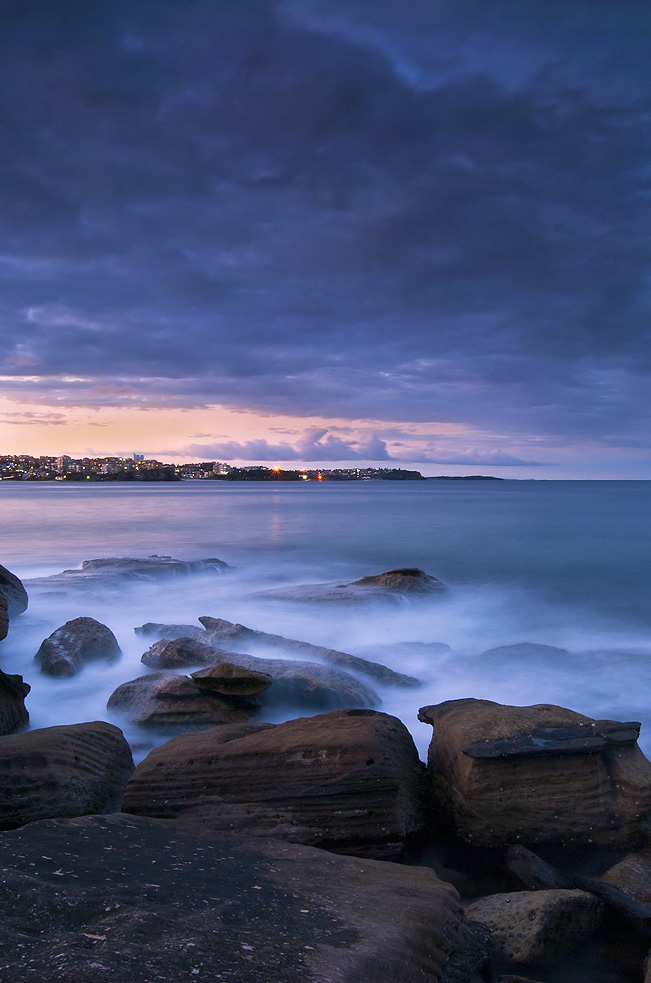 14/08/2011 Sunset over the Northern Beaches taken from Manly.